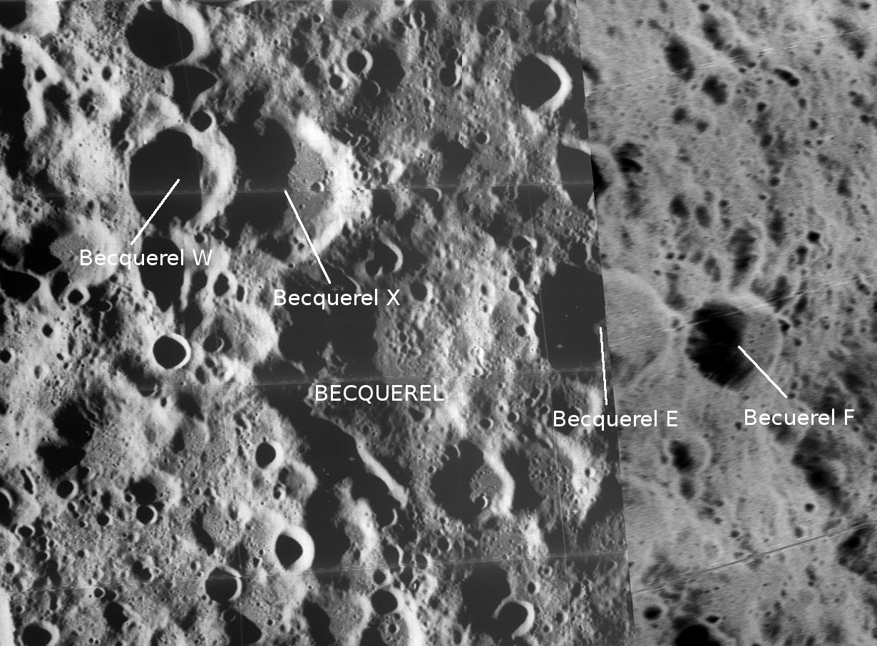 Moon craters Becquerel E, F, W, X Lat: 40.7°N Long: 129.7°E